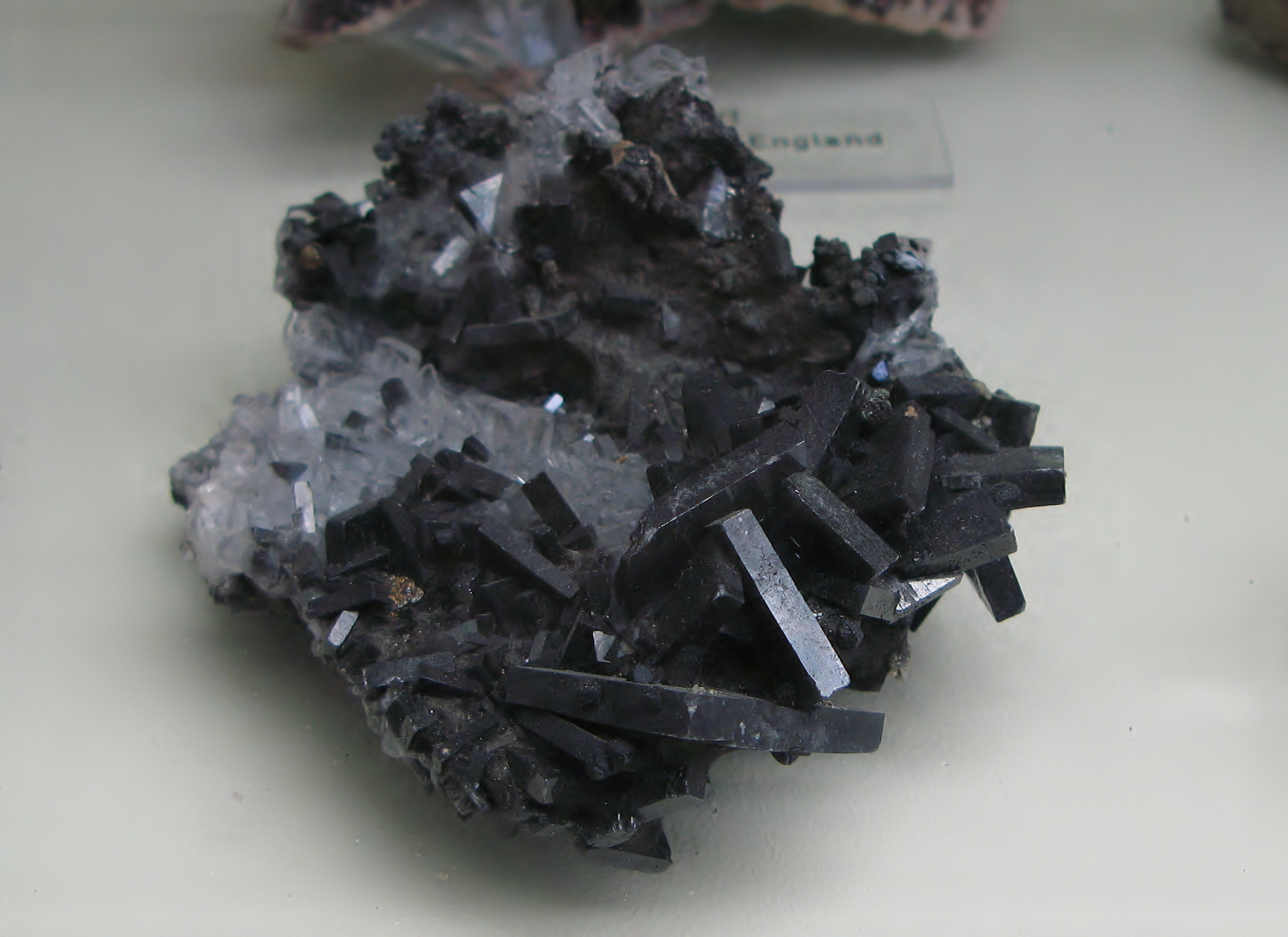 Baryte - Locality: Trepca, Yugoslavia - Exposed in the Mineralogical Museum, Bonn, Germany